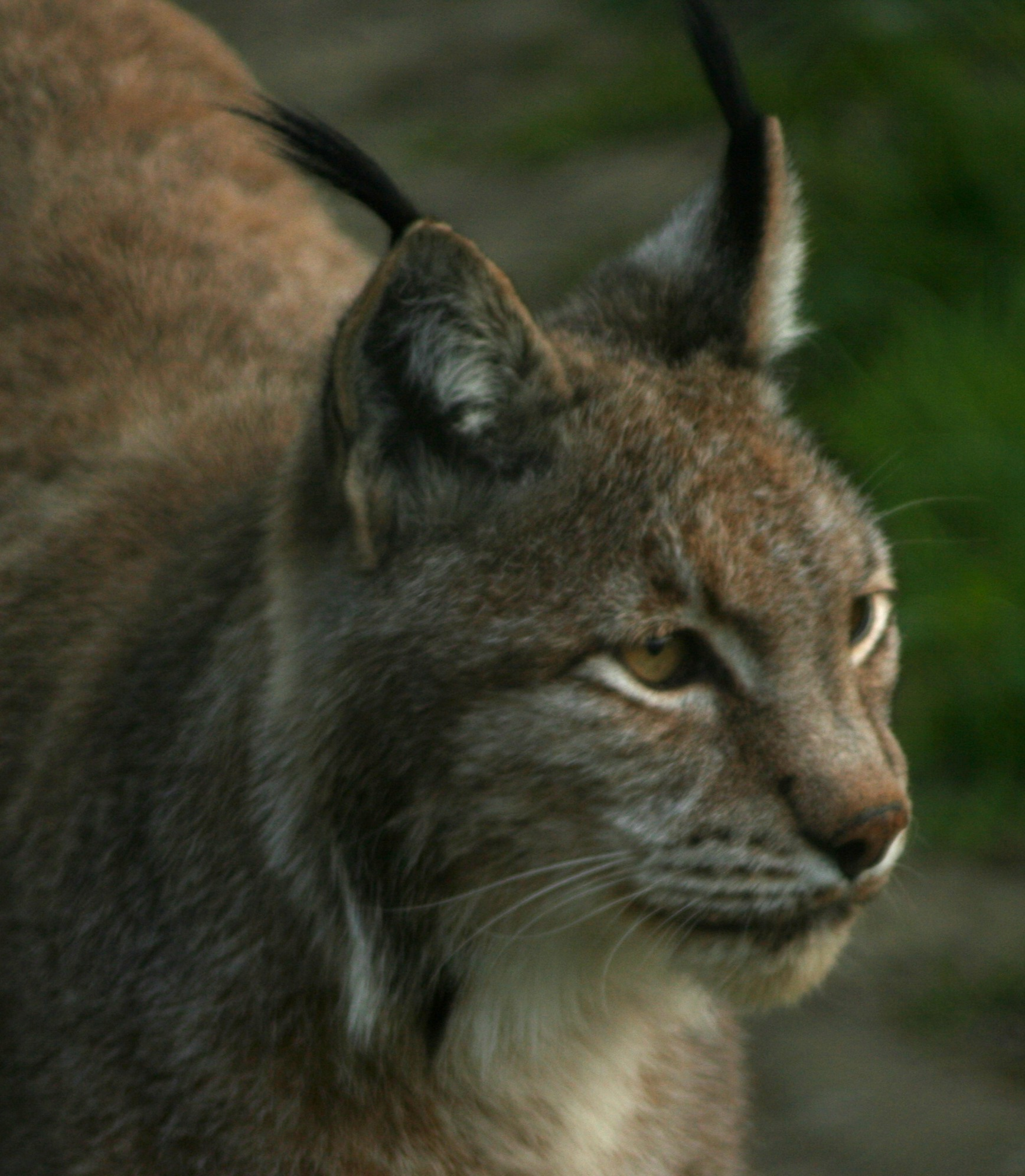 Eurasian Lynx in Białowieża